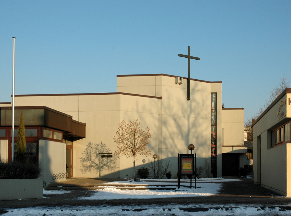 katholic church St. Paulus in Lauffen am Neckar.